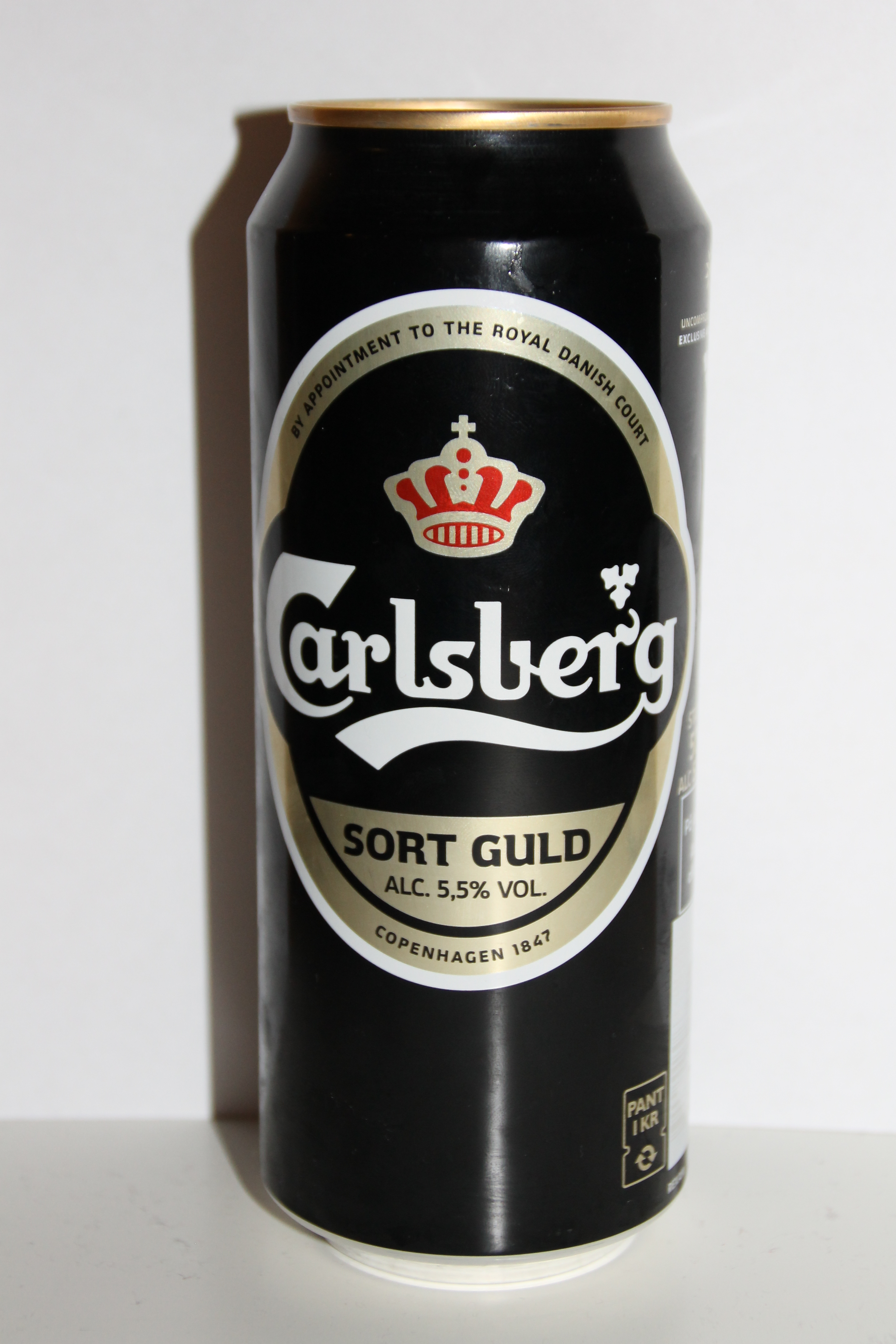 Swedish beer (pilsner) Carlsberg Sort Guld (5.5%)